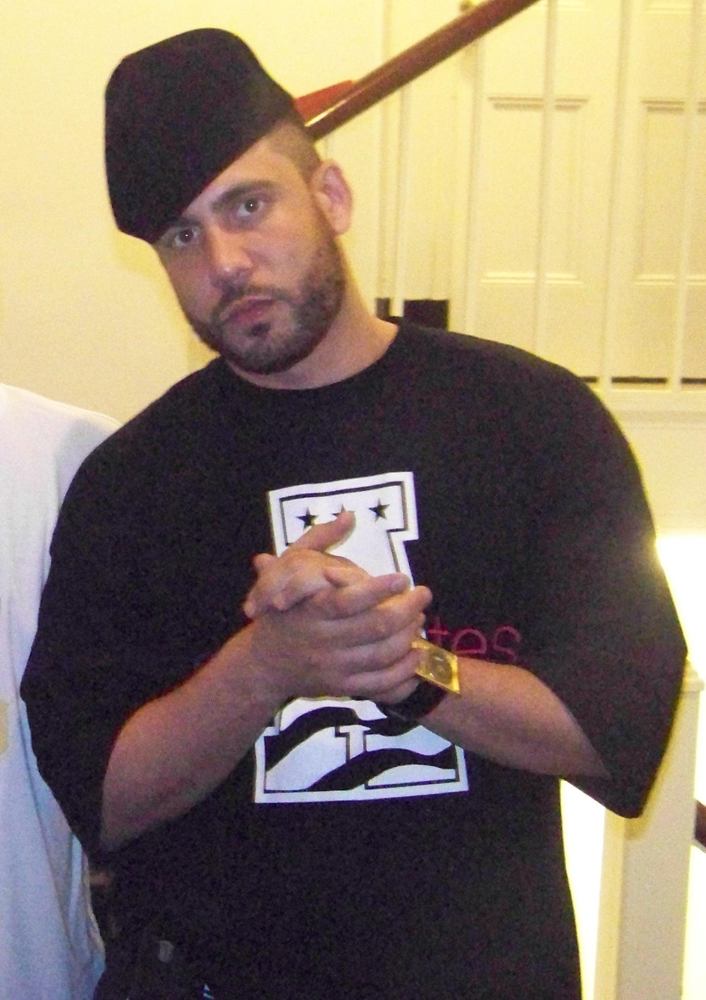 Rapper DJ Drama, cropped from original image.